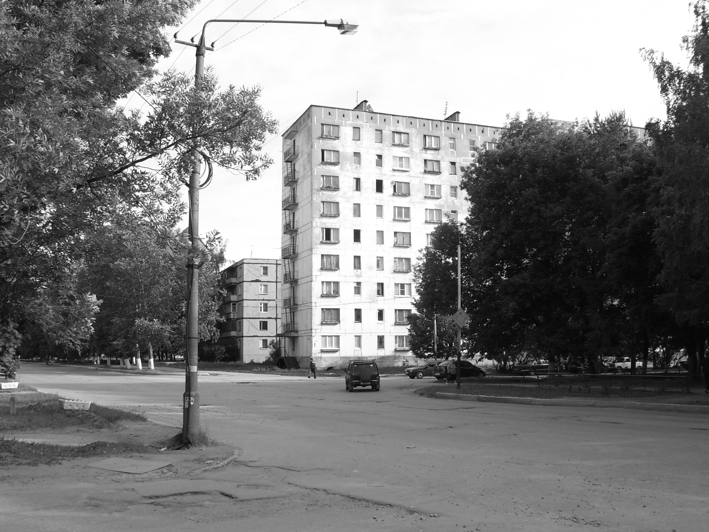 Novomichurinsk